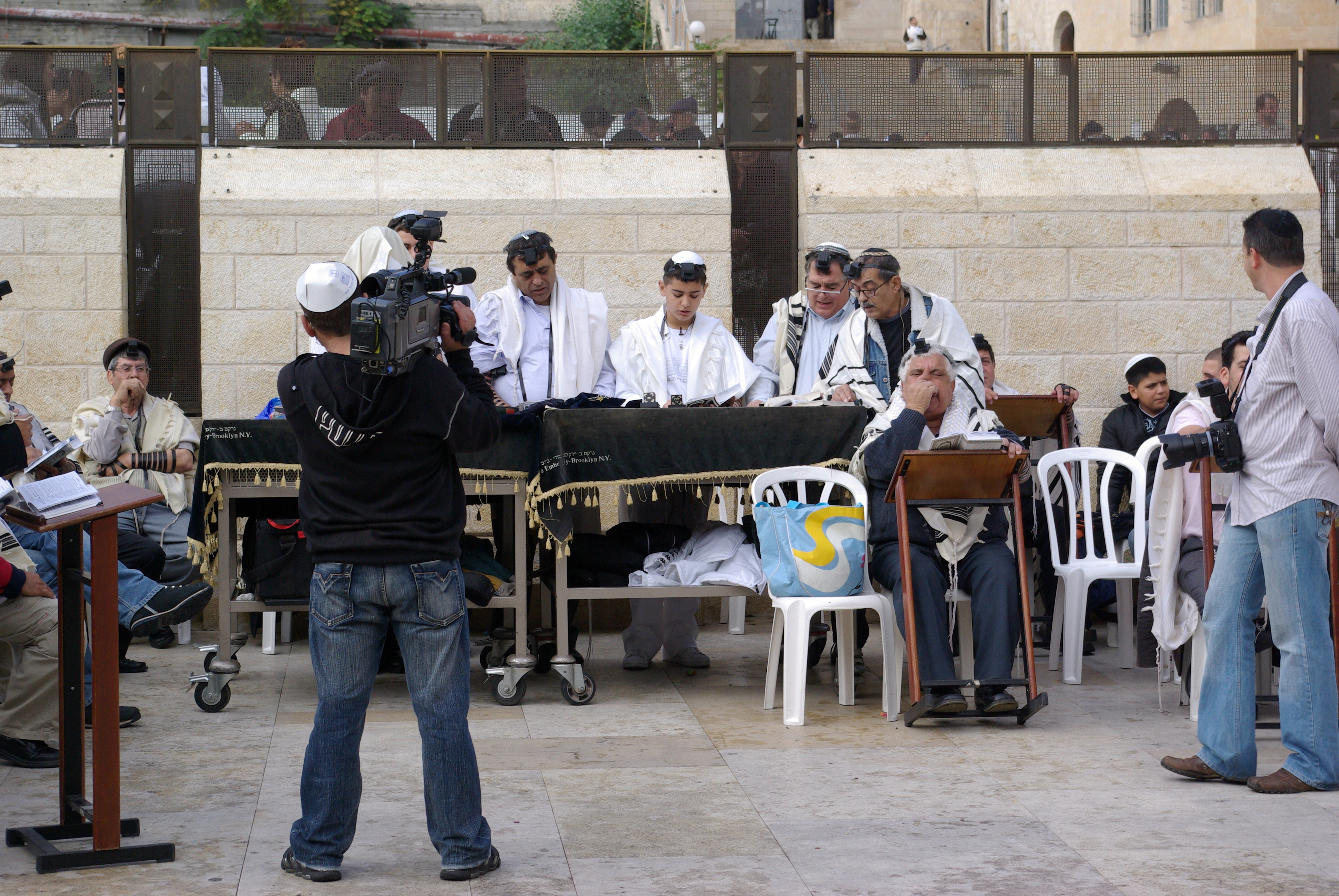 Jerusalem, Bar Mitzvah at the Western Wall